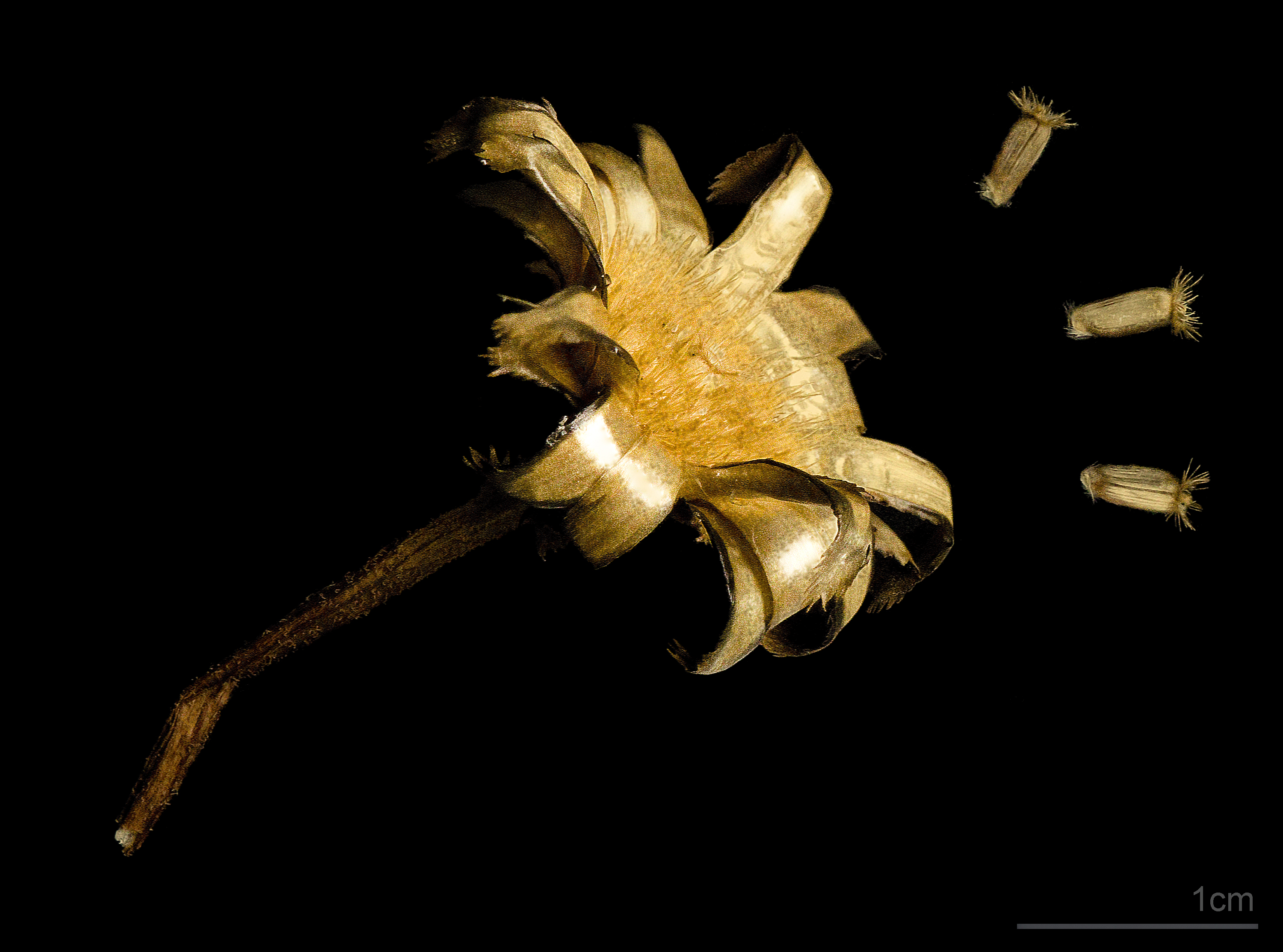 mountain cornflower , fruits and seeds